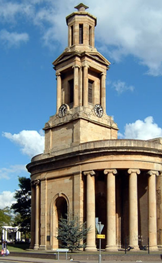 West front of the former parish church of St Thomas, Lee Bank, Birmingham, seen from the southwest